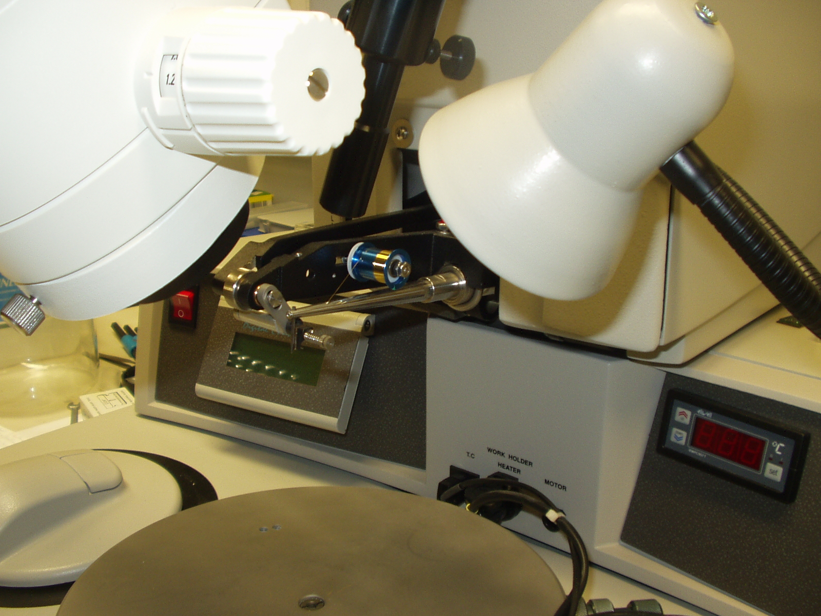 manual wire bonding workplace (with gold wire)